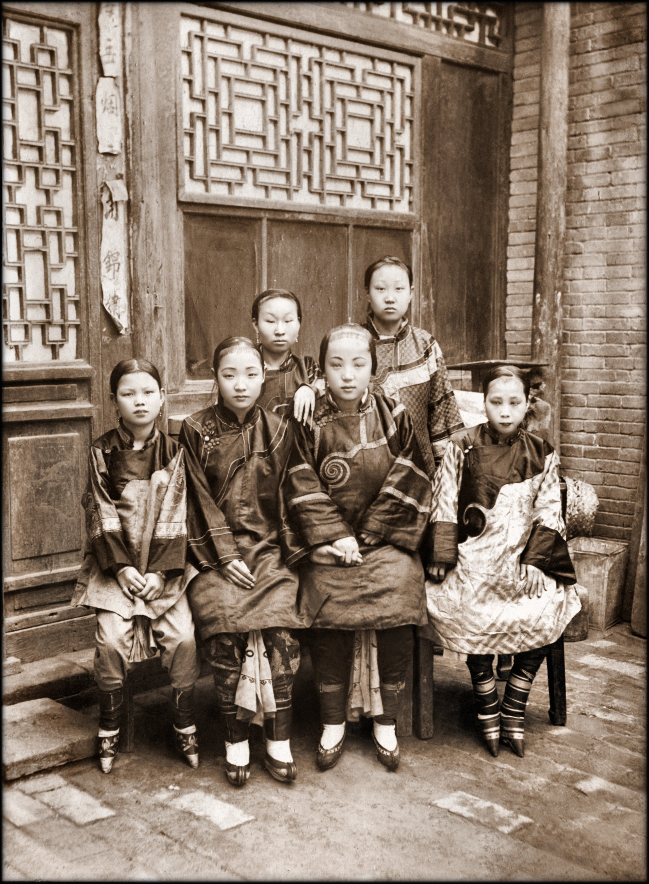 Entitled: Jeunes Filles Chinoises (Young Chinese Girls), China [c1901] R Parison [RESTORED] I spotted out small defects, adjusted contrast, tone, and did some edge repair and corner reconstruction. I found this fantastic image on the site of Flickr user, P.Parison, and it is reposted here with his kind permission: The original image is here: I don't speak French and Babelfish will only get you but so far. At any rate, it seems that one of his forebears was a soldier posted to China in the days of the foreign concessions and around the time immediately following the Boxer period. He has four high resolution scanned albums with very rare images that cannot be seen anywhere else. I would suggest that anyone who cares about old China photographs take the time to see his collection as (and I kid you not) his albums are of museum or auction house quality. The above picture was from Parison's China album #4, with several others on the adjoining pages likely depicting brothels or activities thereof. I suspect that the girls above were prostitutes (one obviously quite young), several of which have bound feet.